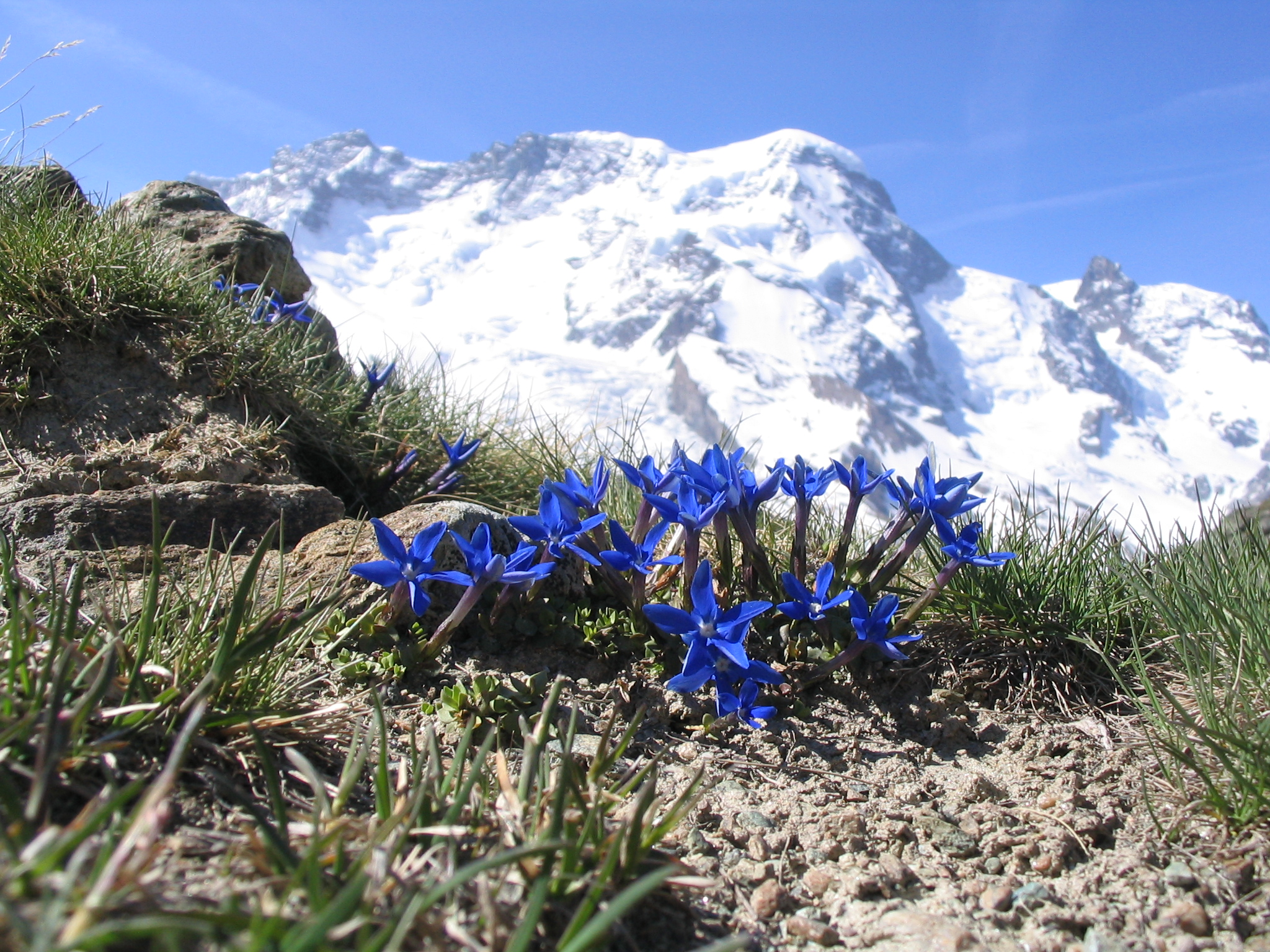 Mountain Breithorn (4164 m, Swiss Alps) with gentian (Gentiana brachyphylla) in the foreground (from near station Rotenboden)